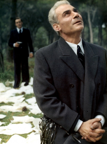 Film Todo Modo